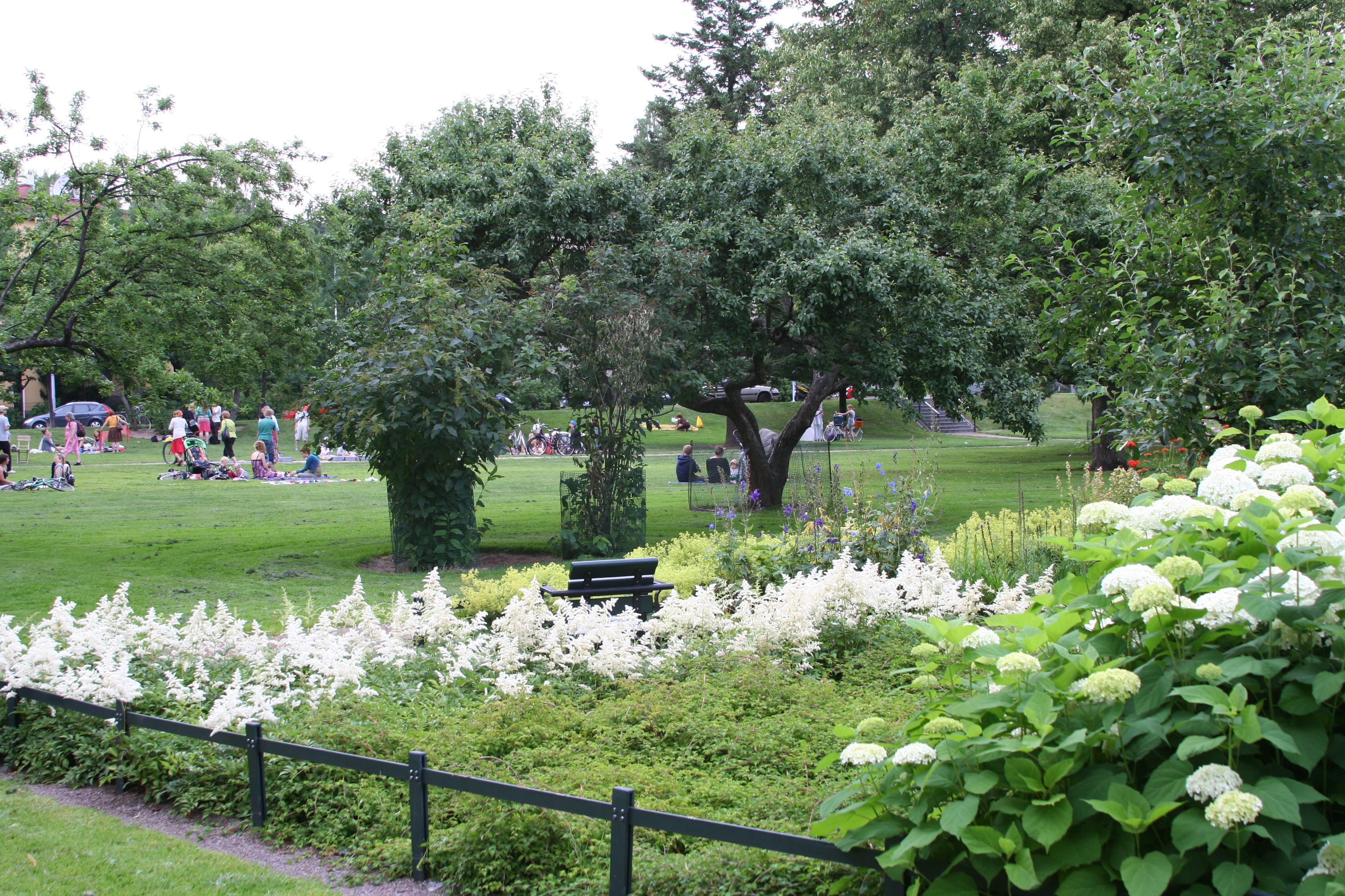 Otto-Iivari Meurmans park, Käpylä, Helsinki, Finland